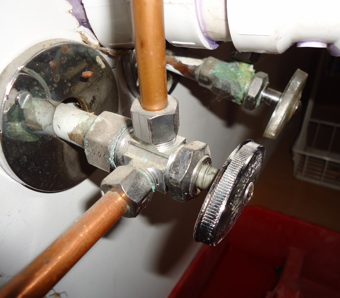 This valve, beneath a sink, was leaking. Hot water comes in (from the pipe to the somewhat upper left middle) and goes to a vertical pipe (copper) leading up to the kitchen sink, and a second copper pipe, leading down to the lower left goes to the dishwasher. I found the exact valve at the store and replaced it. Compression fittings can be sometimes tough to install if the pipes do not fit exactly into the valve.